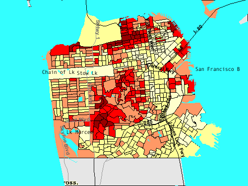 This image is a self-generated thematic map from the U.S. Census Bureau's American Factfinder at by Wikipedia user Stevey7788.